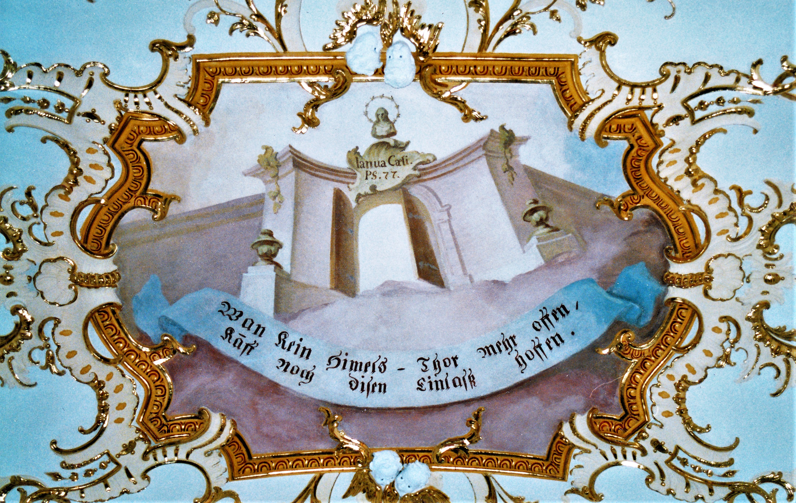 Maria Brünnlein - Fresco by Johann Baptist Zimmermann: Ianua coeli (Gate of Heaven)